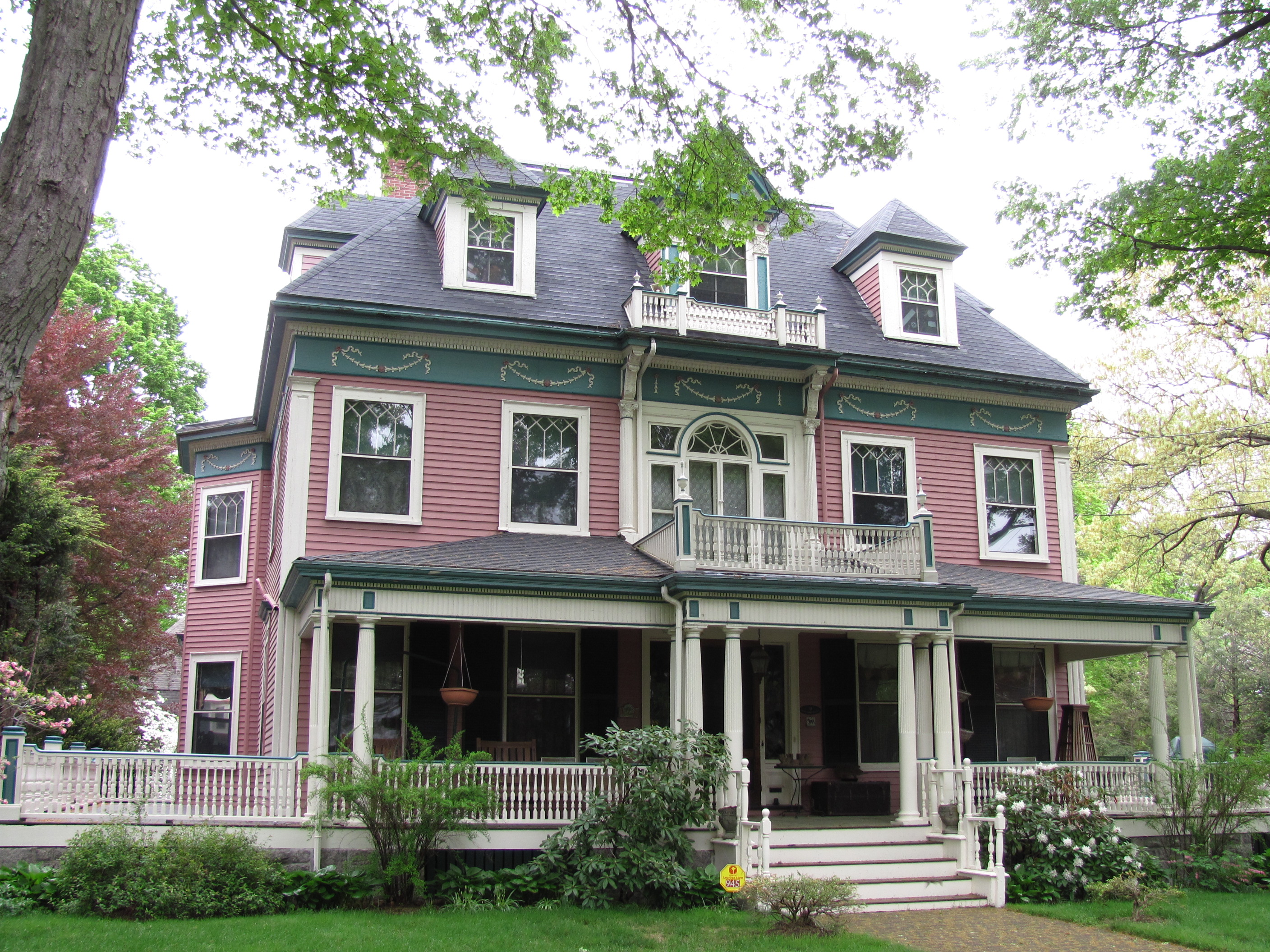 House on Webster Court, Newton Centre Massachusetts